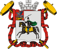 Klin (Moscow oblast), coat of arms (1883)